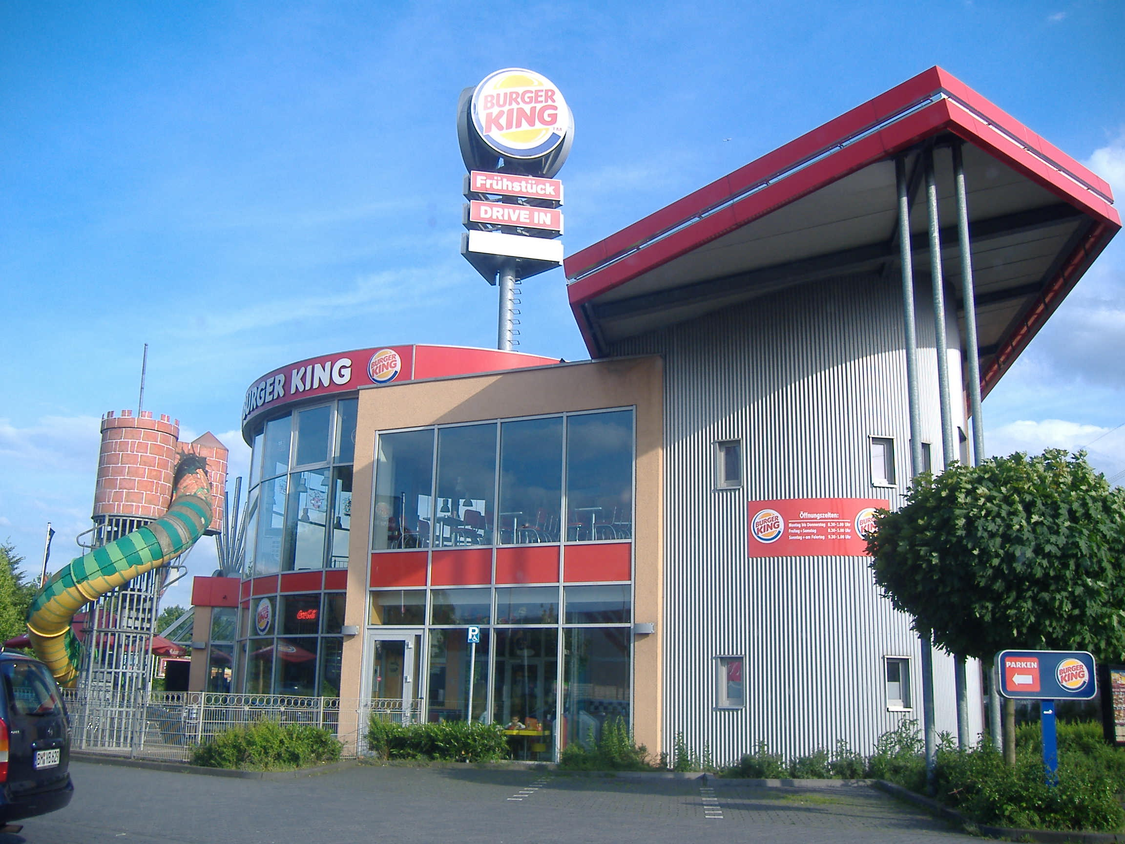 A unique, full-service two-story Burger King restaurant located in Frechen (right by the A1/A4 (Köln-West, Cologne-West) autobahn interchange)